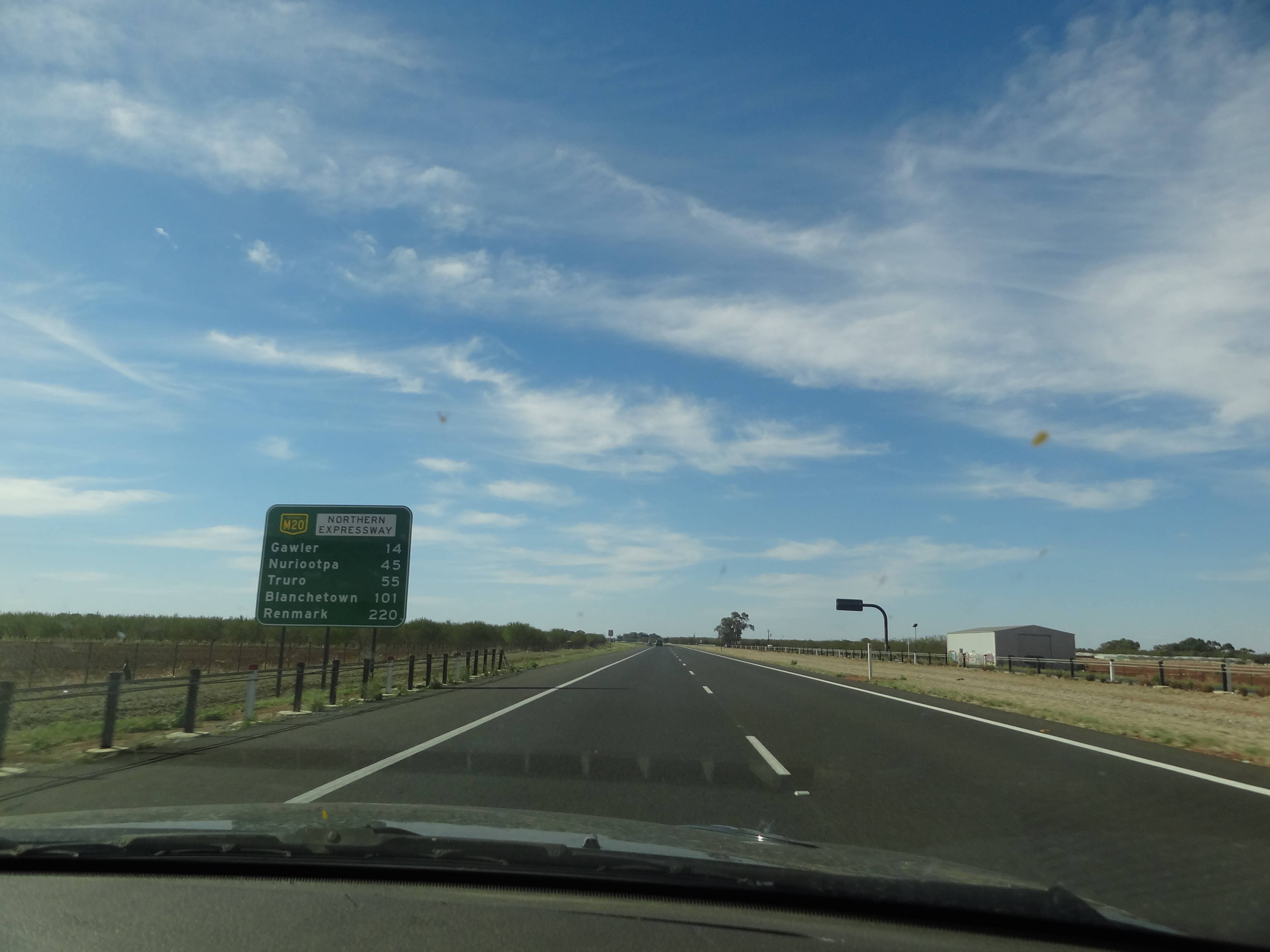 The Northern Expressway, heading North-East, 14km from Gawler.